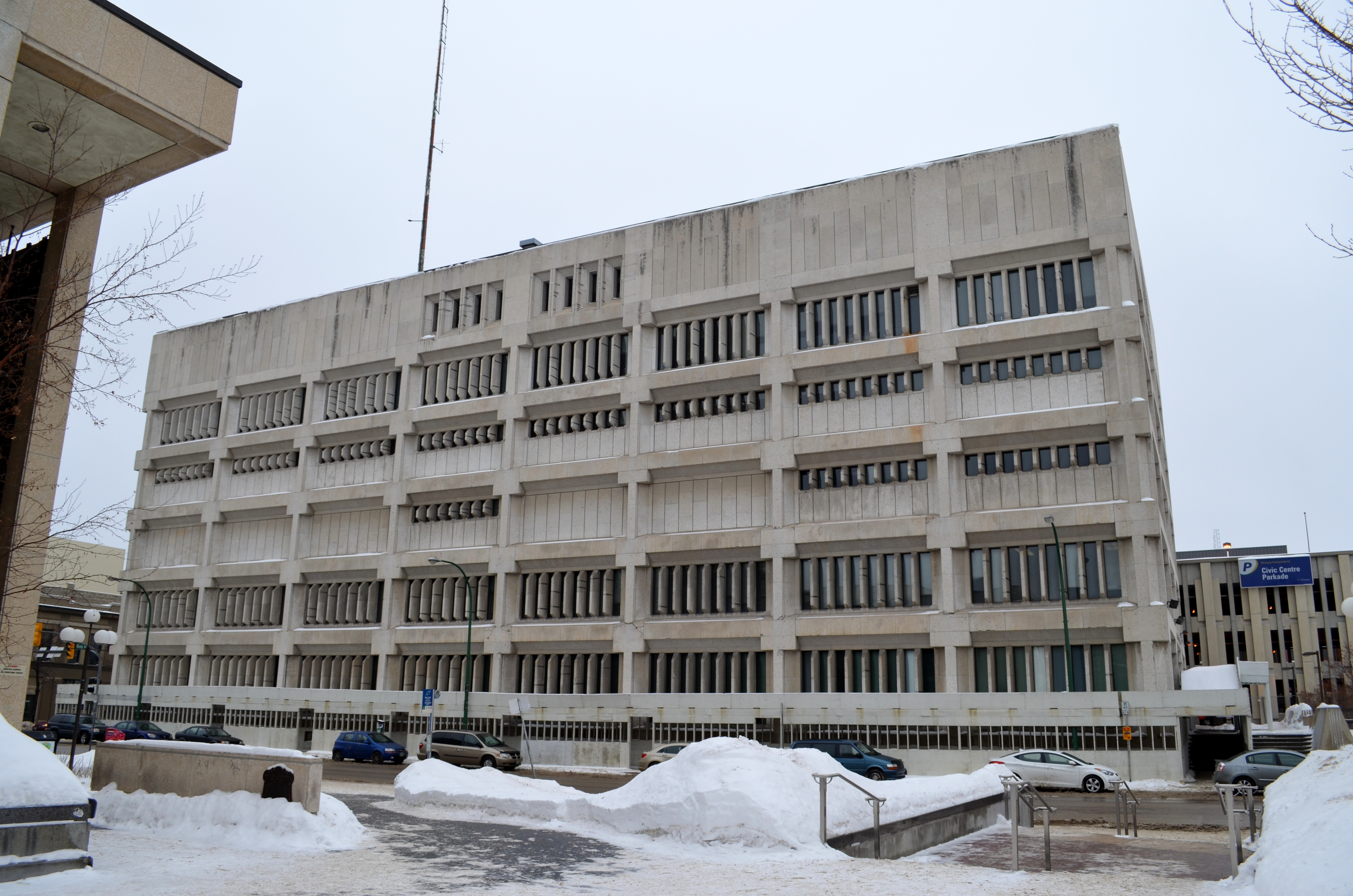 Public Safety Building, 153 Princess Street, Winnipeg, Manitoba